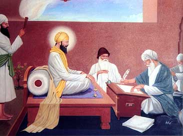 Guru Angad (31 March 1504 – 28 March 1552) listening to Bhai Bala who is narrating the Sakhis of Guru Nanak to the writer Paira Mokha - which later on was called the 'Bhai Bala wali Janam Sakhi'.